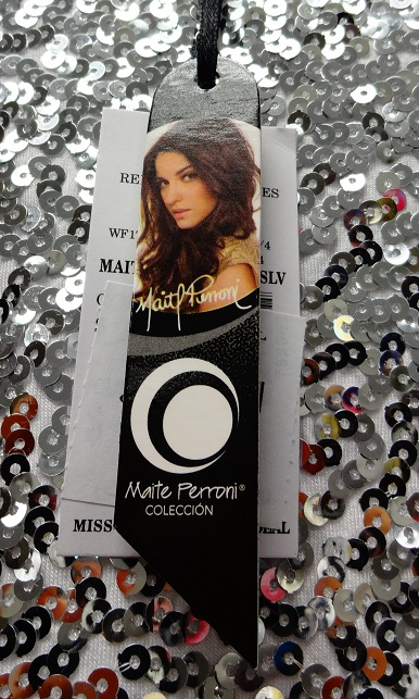 Maite Perroni Coleccion Cropped Image.